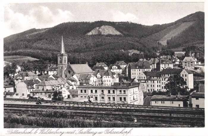 Dittersbach (Waldenburg) auf einer Postkarte von 1929